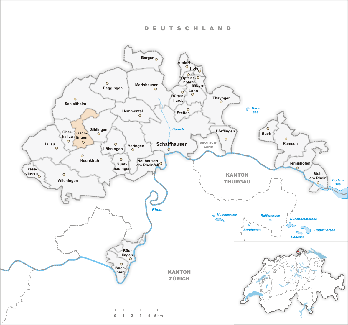 Municipality Gächlingen